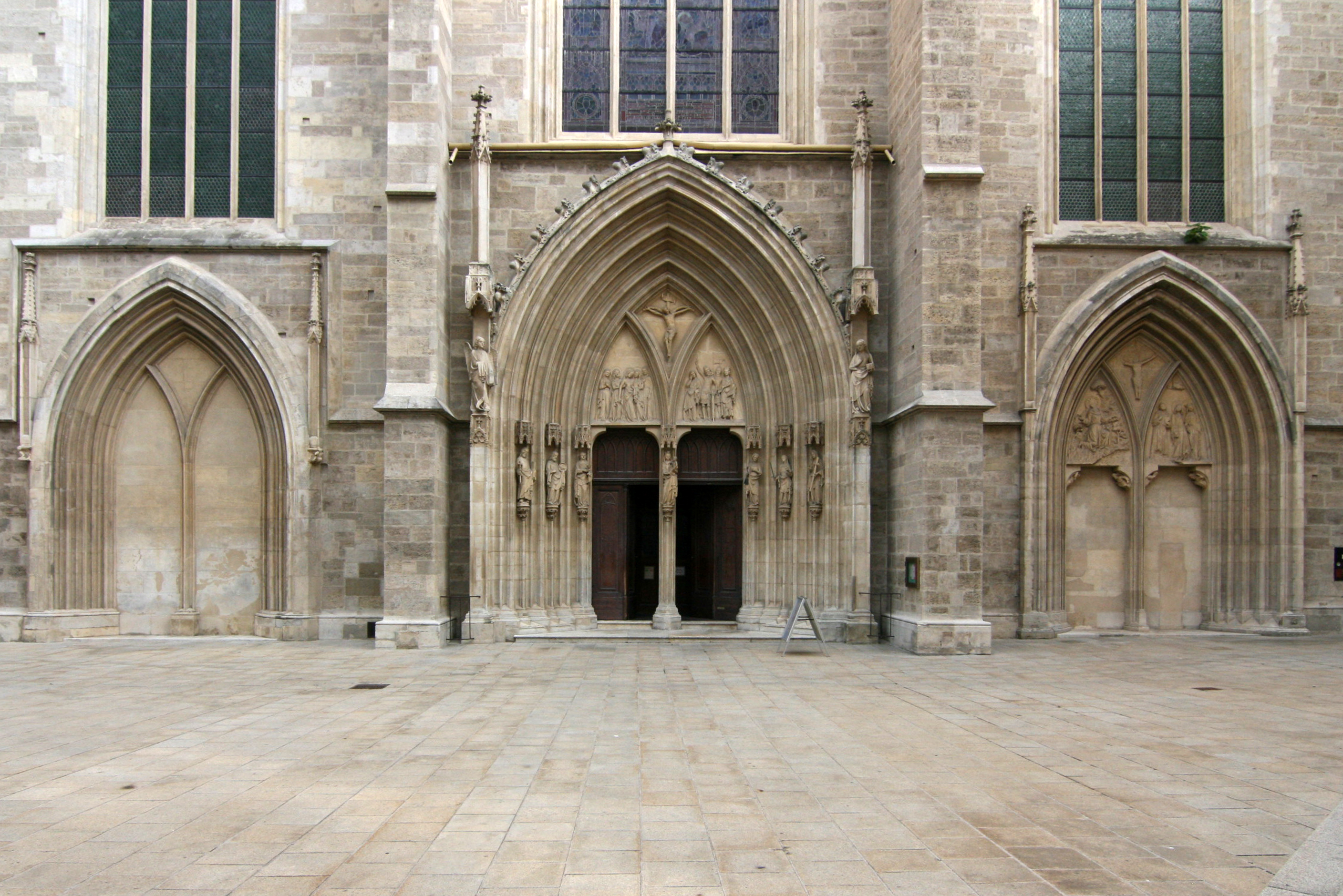 Gothic portals of the Minoritenkirche Maria Schnee (Vienna)